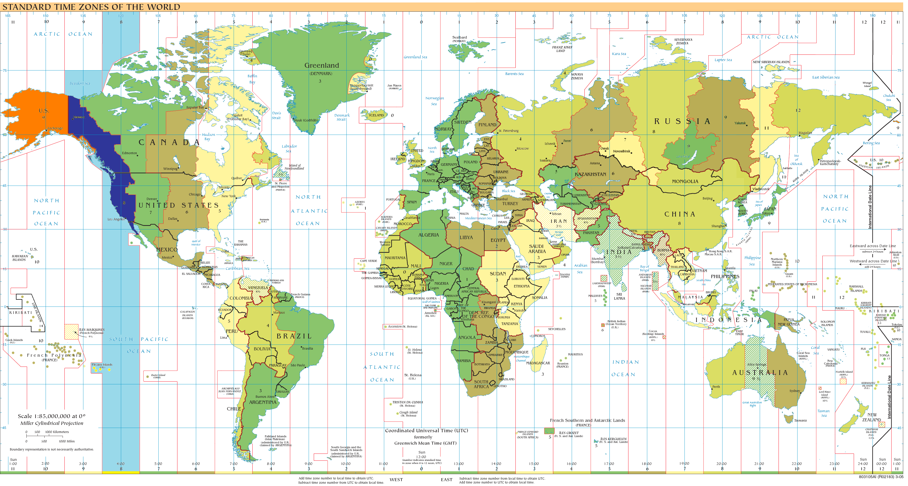 Copy of Timezones2008.png With UTC-8 Highlighted Light Blue - UTC-8 Sea Area Dark Blue - UTC-8 Northern Winter / Southern Summer (e.g. December) Orange - UTC-8 Northern Summer / Southern Winter (e.g. June) Yellow - UTC-8 All year round